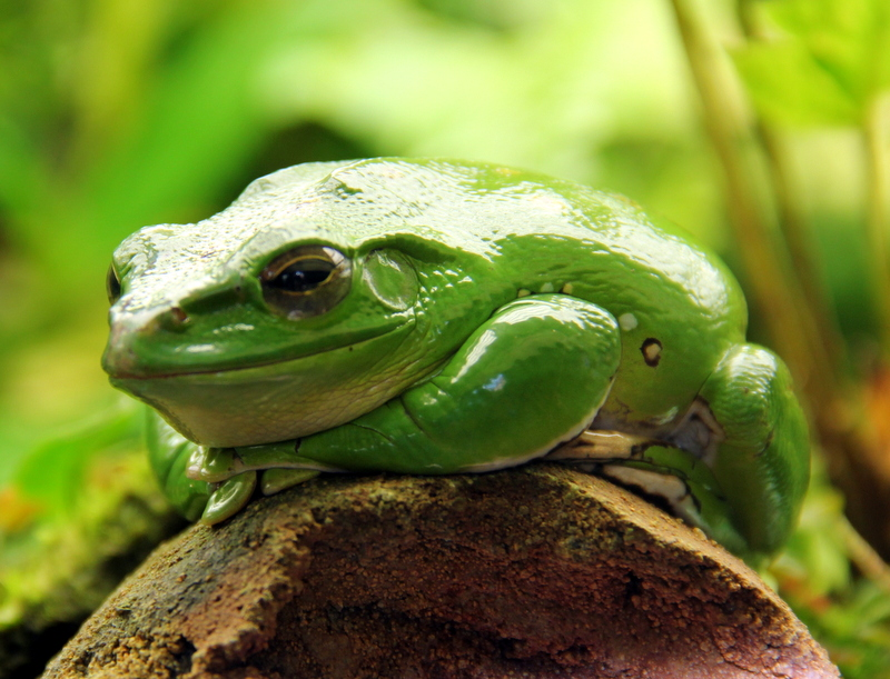 Chinese tree frog in Berlin zoo